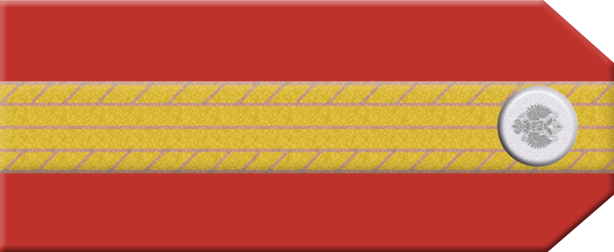 Rank insignia of the Imperial Russian Army until 1917, here Podpraposhchik (en: Junior praporshchik, Subpraporshchik/ equvalen: Sergeant first class OR7 – NATO).